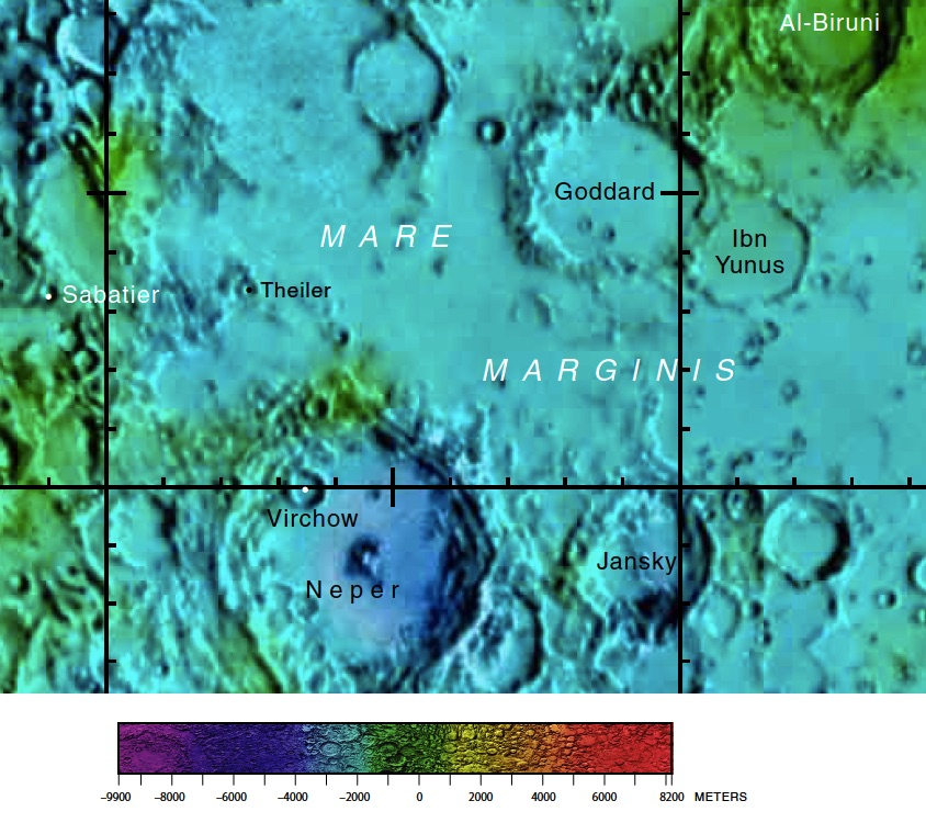 Part of the USGS near side lunar chart.